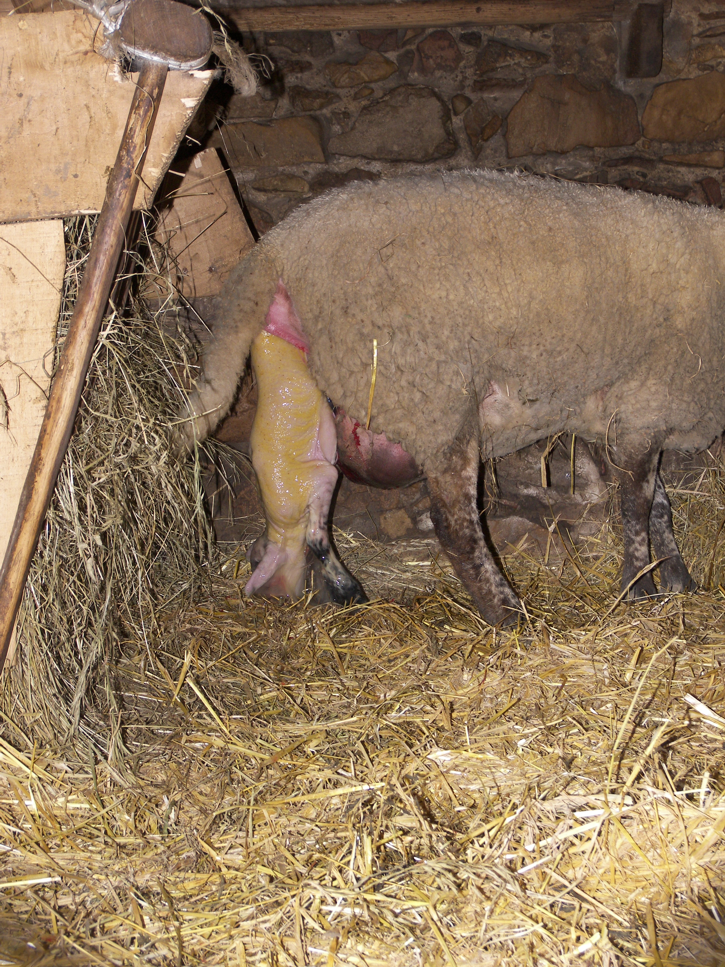 Birth of a lamb